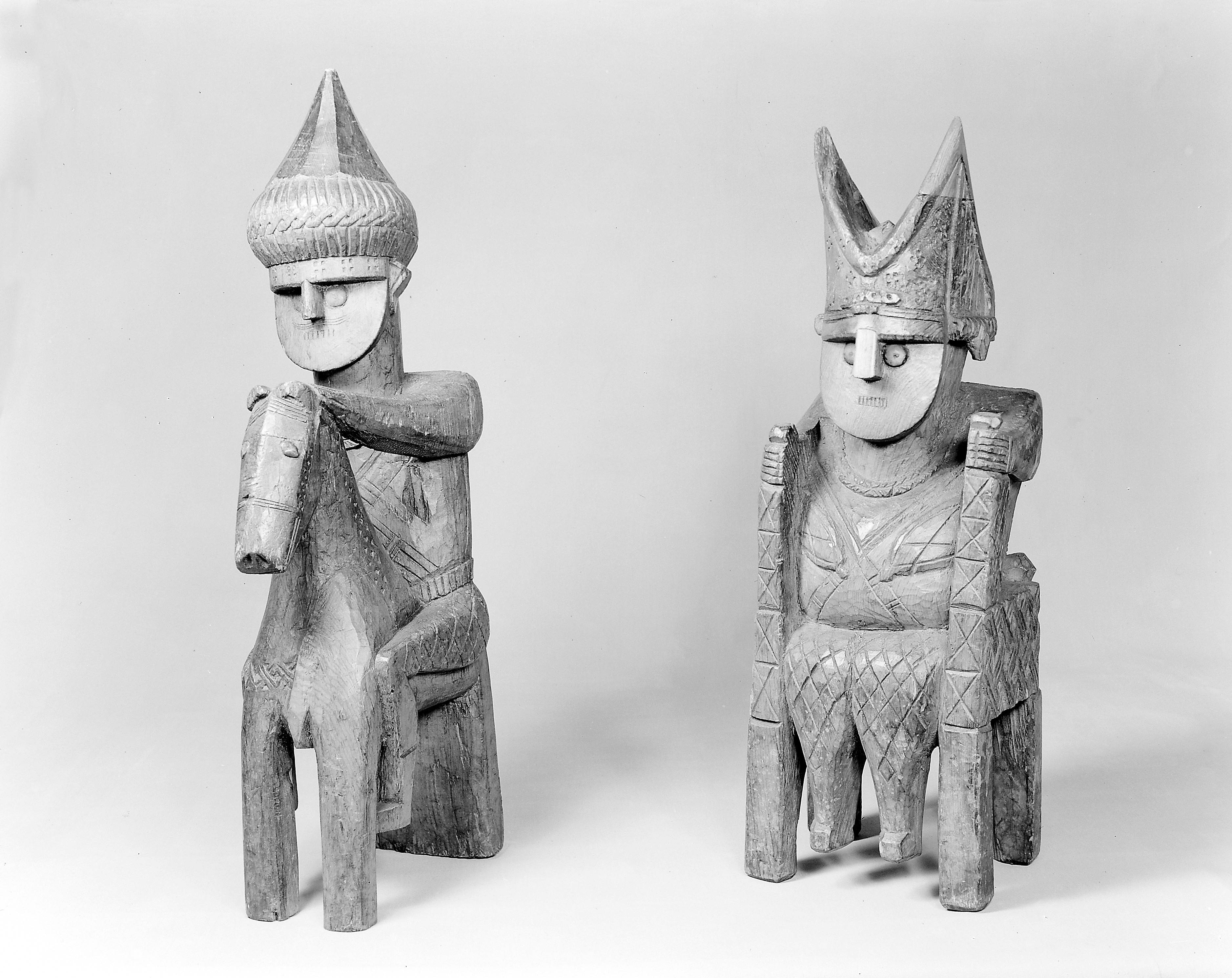 Ancestral effigies, Kafiristan, India. Models of the life-sized figures which are placed outside box graves on hillsides one year after death. Offerings of food, bows and arrows are made to them, and public disasters are attributed to the mishandling of them. The equestrian figures represent males and the seated figures represent females. Wellcome Images Keywords: causation of disease; indigenous non-european medicine